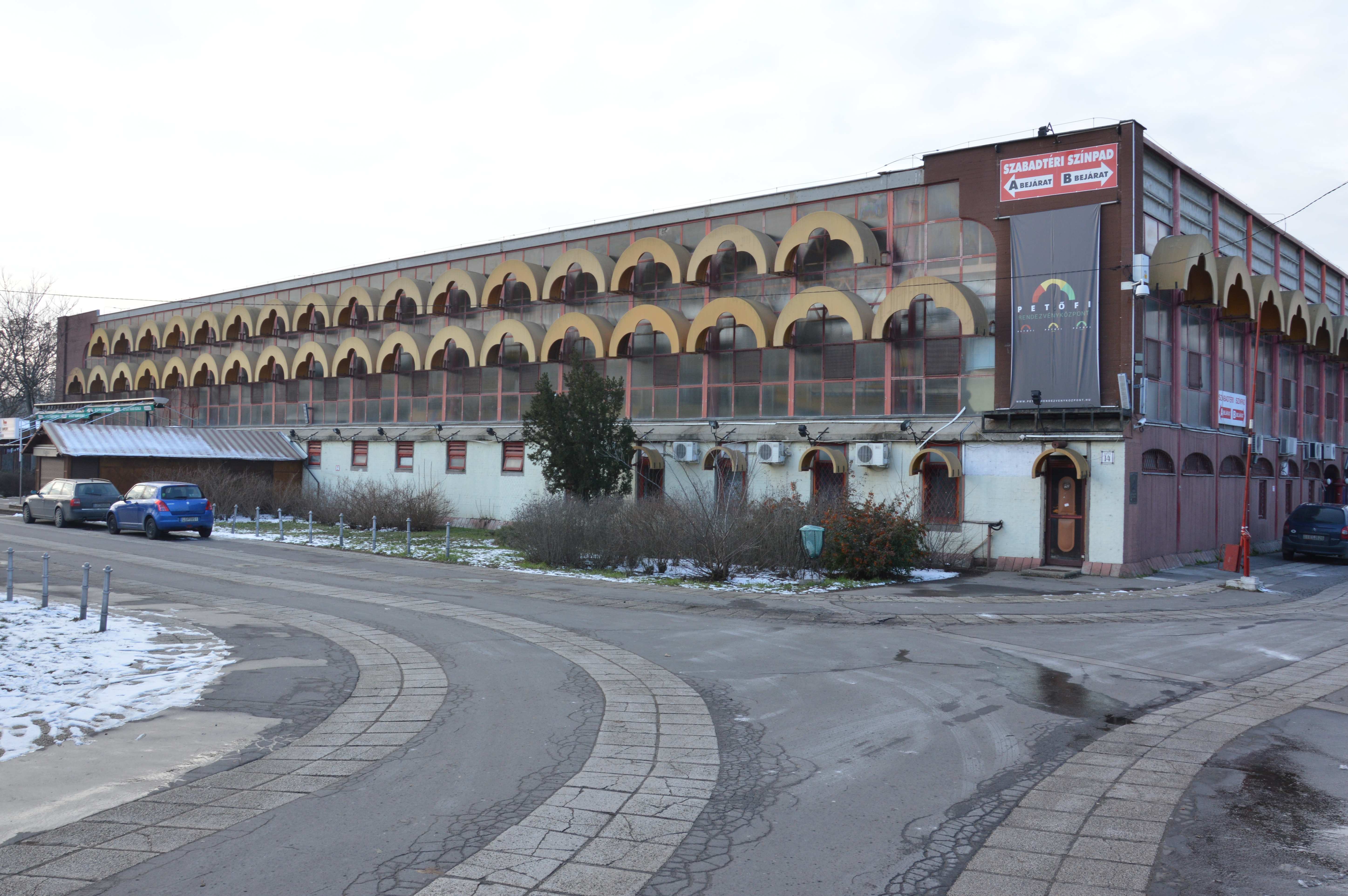 Main entrance of Petőfi Csarnok in Budapest's Városliget